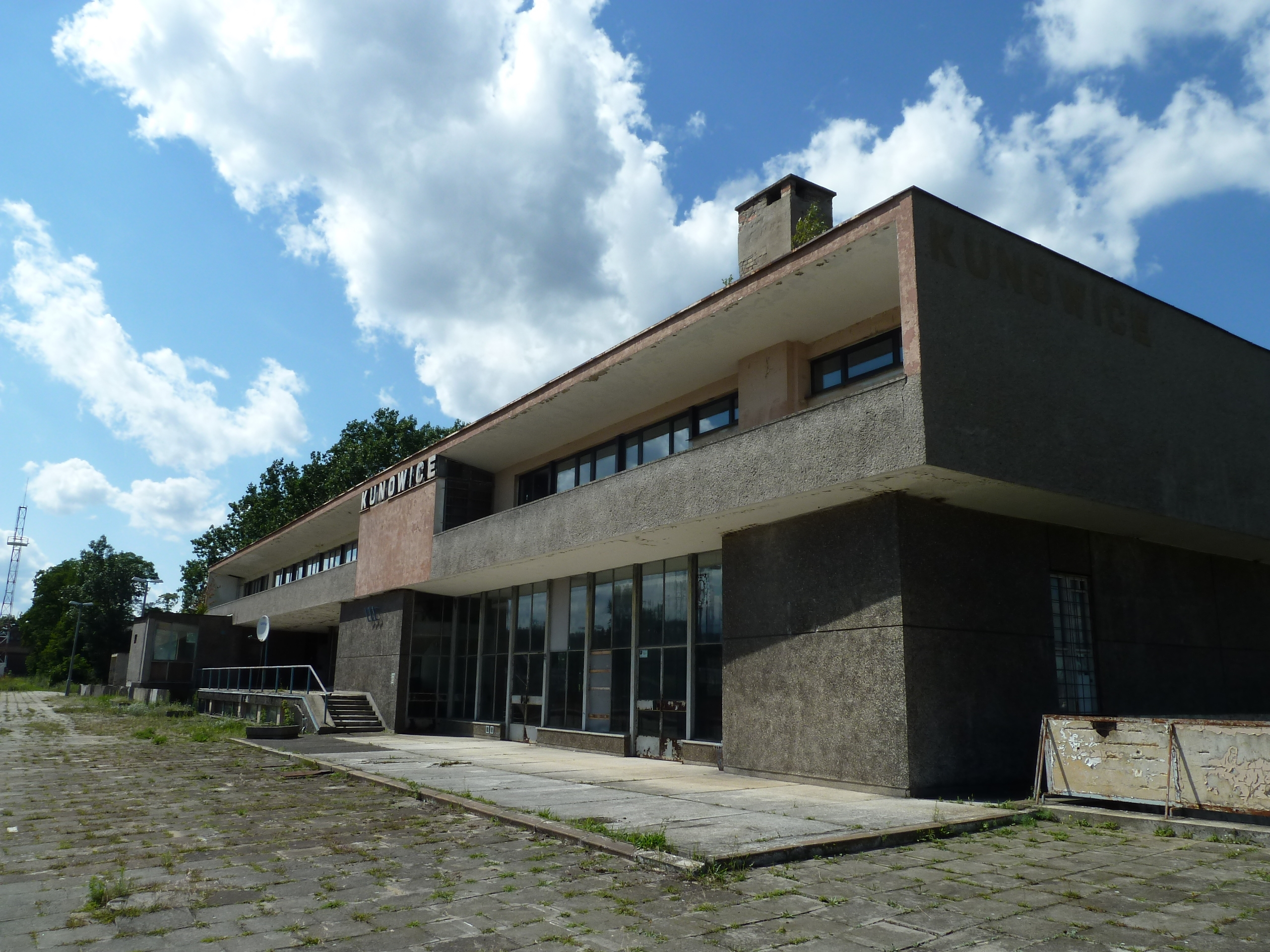 Kunowice train station, station building from 1965, today out of use